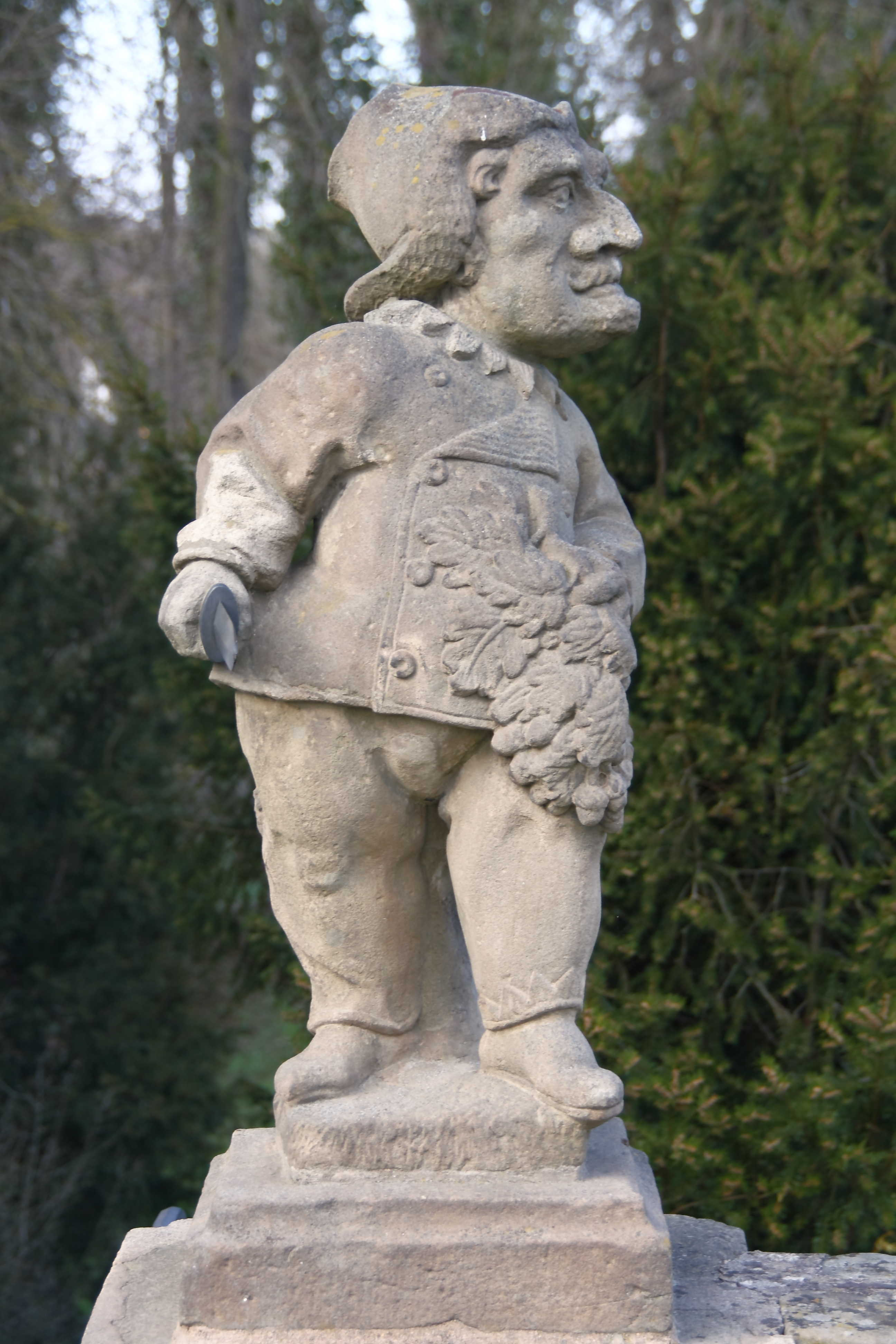 The professional hunter of the court